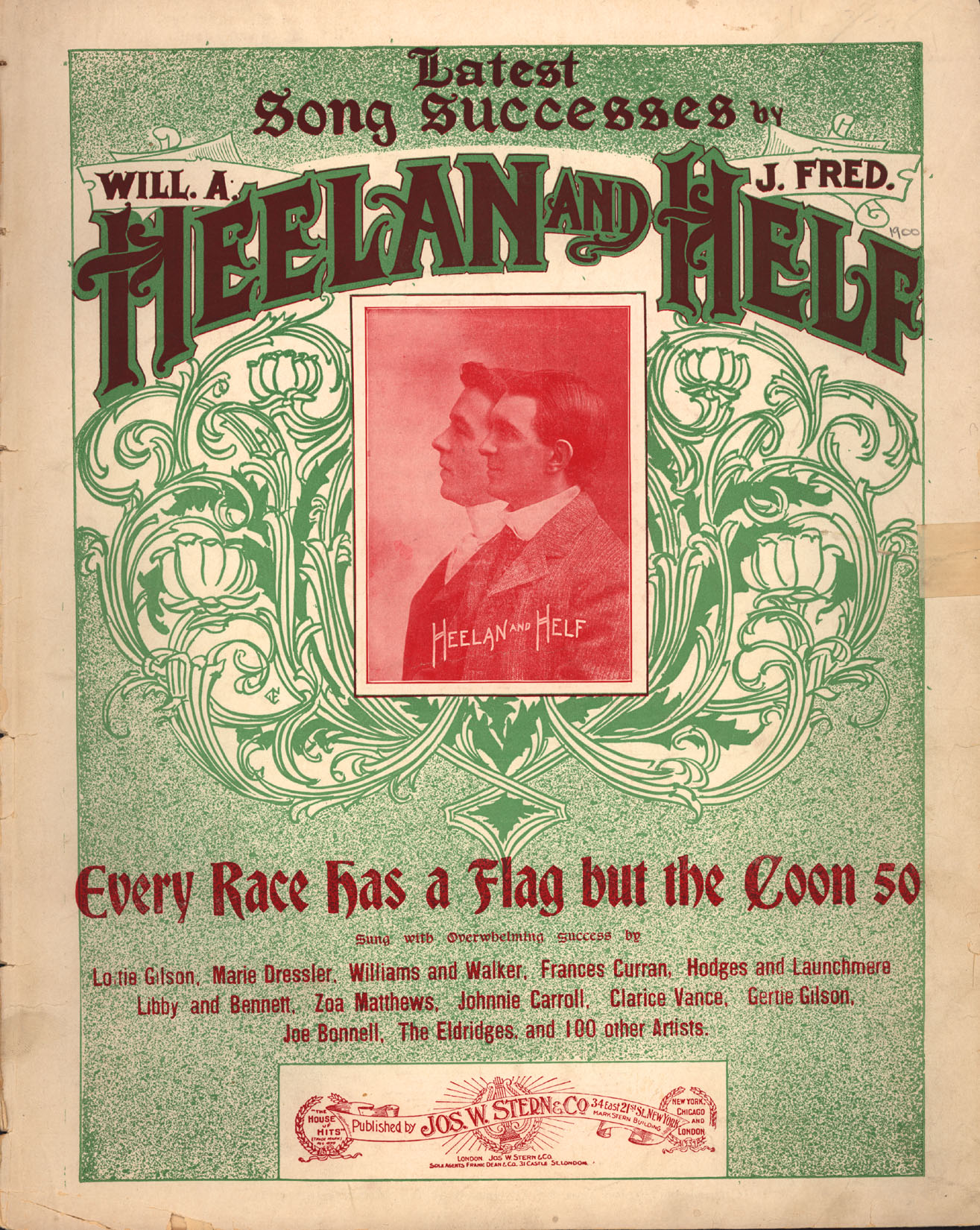 Sheet Music for "Every race has a flag but the coon" / words and music by Will. A. Heelan & J. Fred Helf.